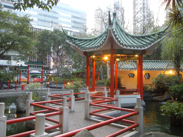 Hollywood Park in Central District, Hong Kong